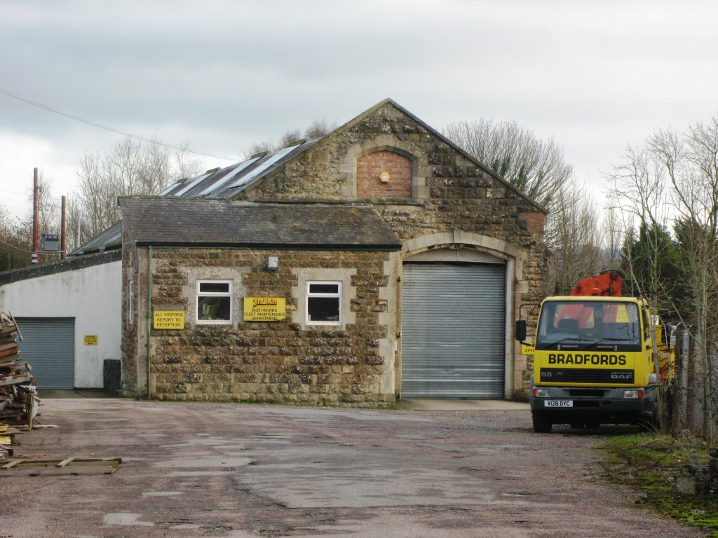 The old railway goods shed at Crewkerne, Somerset, England.